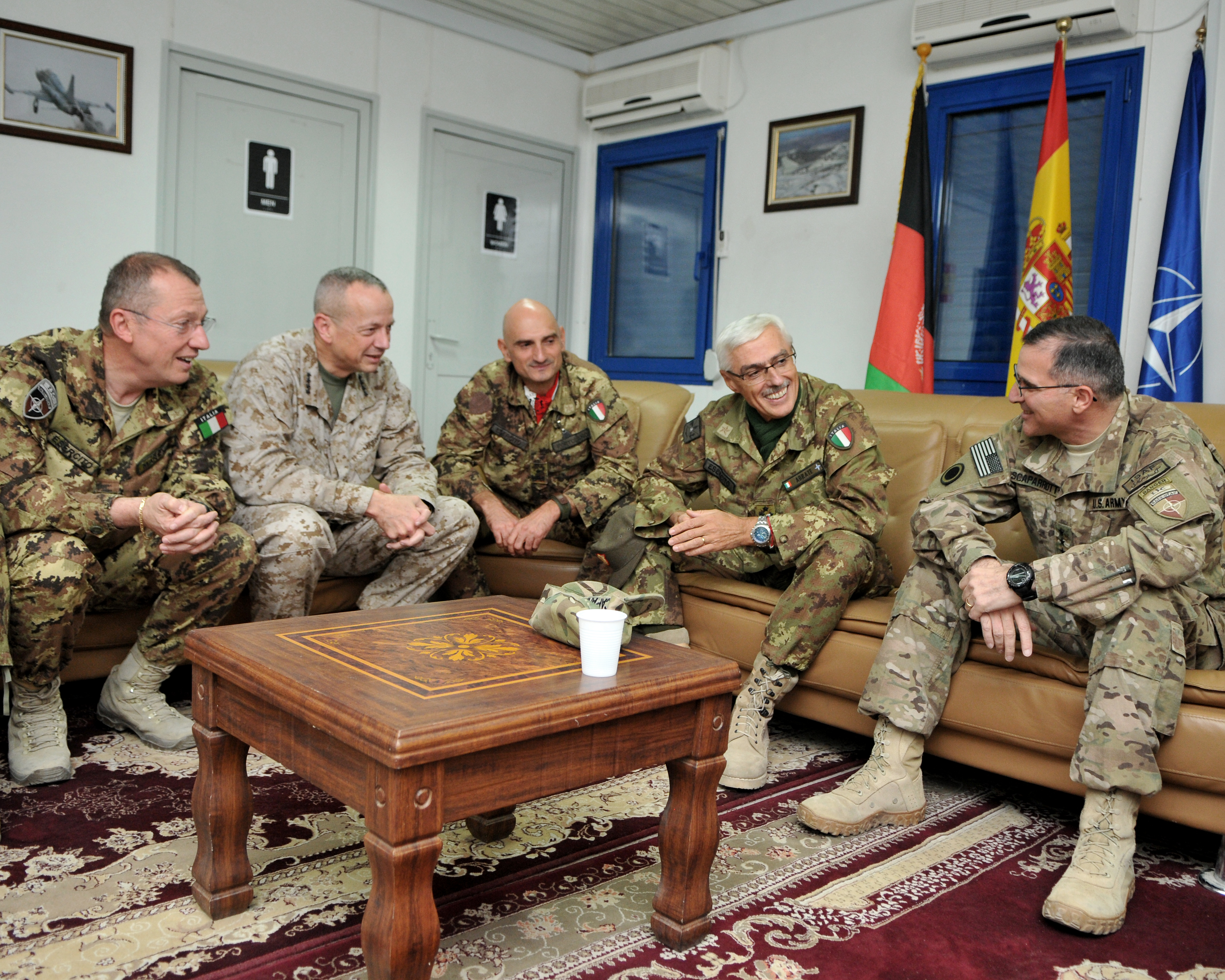 from left to right: Marine Gen. John R. Allen, commander of NATO’s International Security Assistance Force in Afghanistan (ISAF), and U.S. Army Lt. Gen. Curtis Scaparrotti, ISAF Joint Command commander, meet with Italian generals prior to the start of the Regional Command-West (RC-W) Transfer of Authority (TOA) ceremony in Herat province, Sept. 29, 2011. Italian Army Brig. Gen. Luciano Portolano, Sassari Brigade commander assumed command of RC-W from Italian Brig. Gen. Carmine Masiello, Folgore Brigade commander. ISAF is a key component of the international community's engagement in Afghanistan, assisting Afghan authorities in providing security and stability while creating the conditions for reconstruction development. Seated from left to right: Brig. Gen. Carmine Masiello, Gen. John R. Allen, Brig. Gen. Luciano Portolano, Italian Chief of the Defence Staff General Biagio Abrate, Lt. Gen. Curtis Scaparrotti. (U.S. Air Force photo/Master Sgt. Michael O'Connor) (Released)